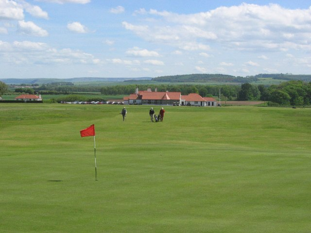 Luffness Links Golf Course.